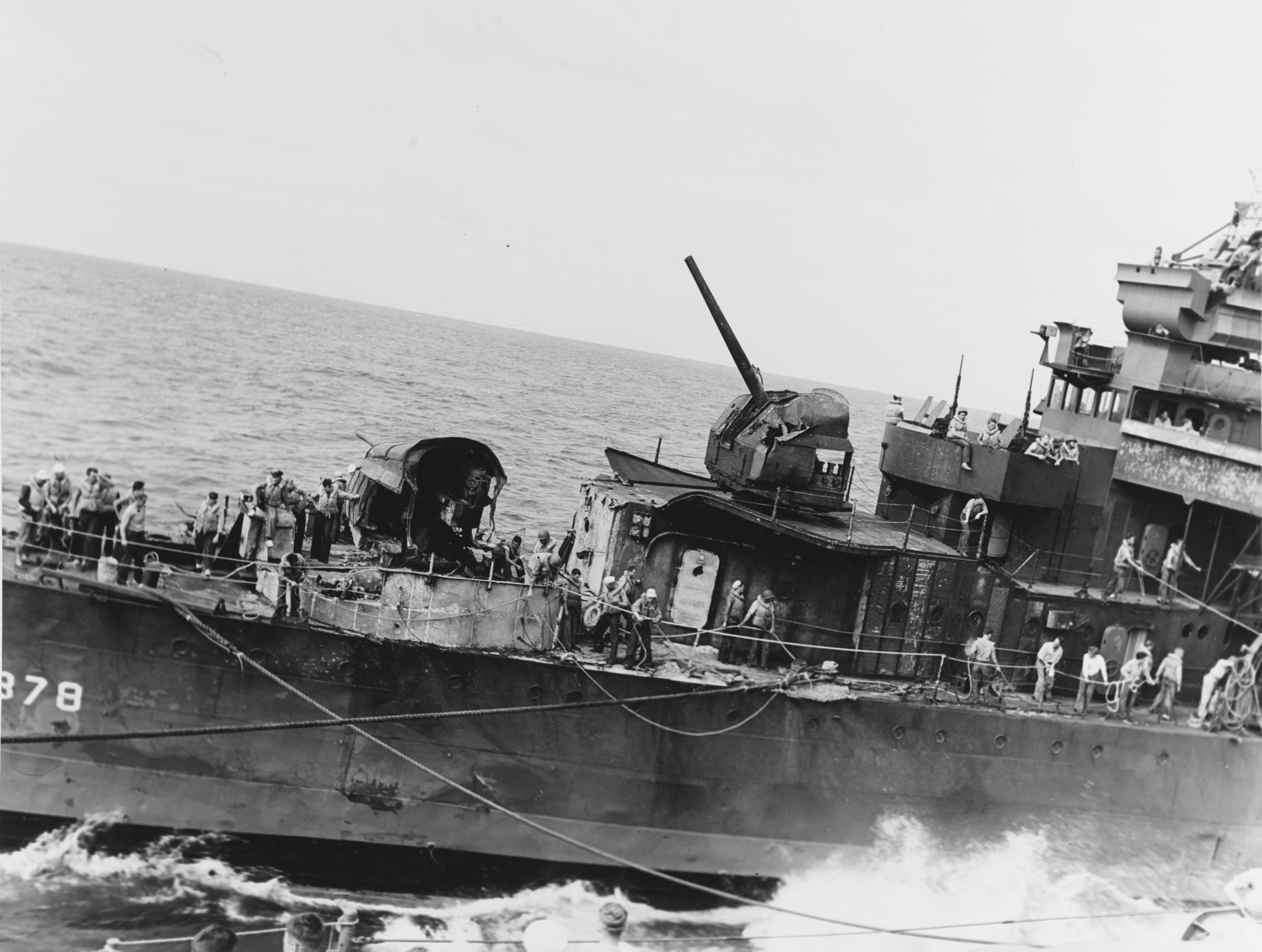 The U.S. Navy destroyer USS Smith (DD-378) refueling from the battleship USS South Dakota (BB-57) on 28 October 1942. Her two forward 5"/38 guns and much of her forward superstructure are burned out and otherwise damaged, the result of a Japanese Nakajima B5N torpedo plane that crashed into her two days earlier, during the Battle of the Santa Cruz Islands.